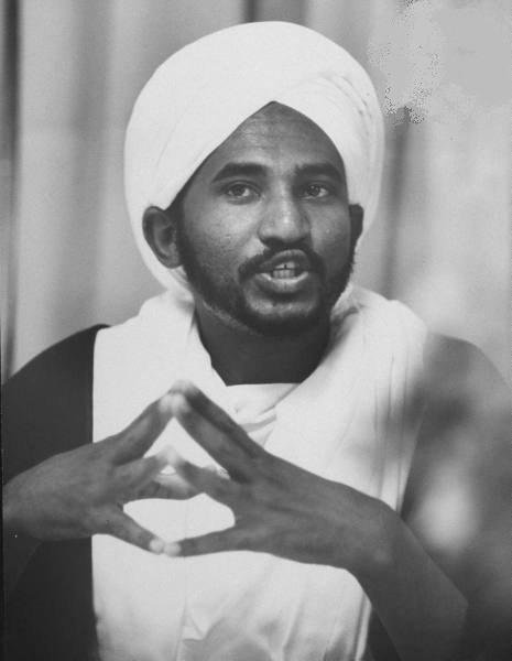 Photograph of Al-Sadiq al-Mahdi; a Sudanese political & religious figure.